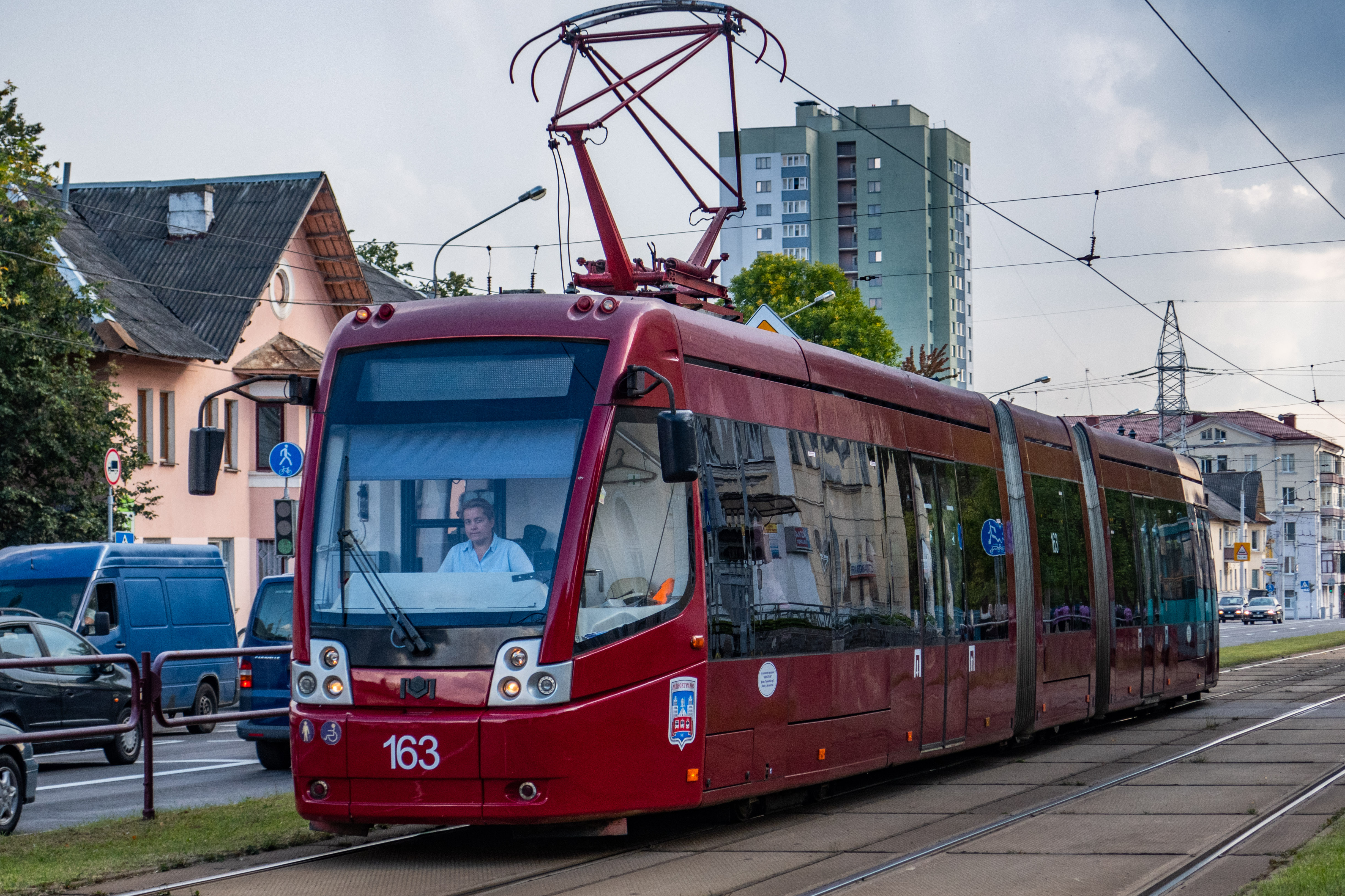 AKSM-843 tram No 163. Pliachanava street. Minsk, Belarus